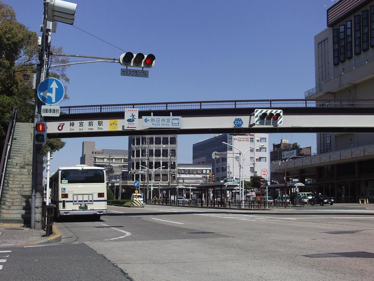 The Aichi Prefectural Road Route 226 in Jingu 3-chome, Atsuta-ku, Nagoya City